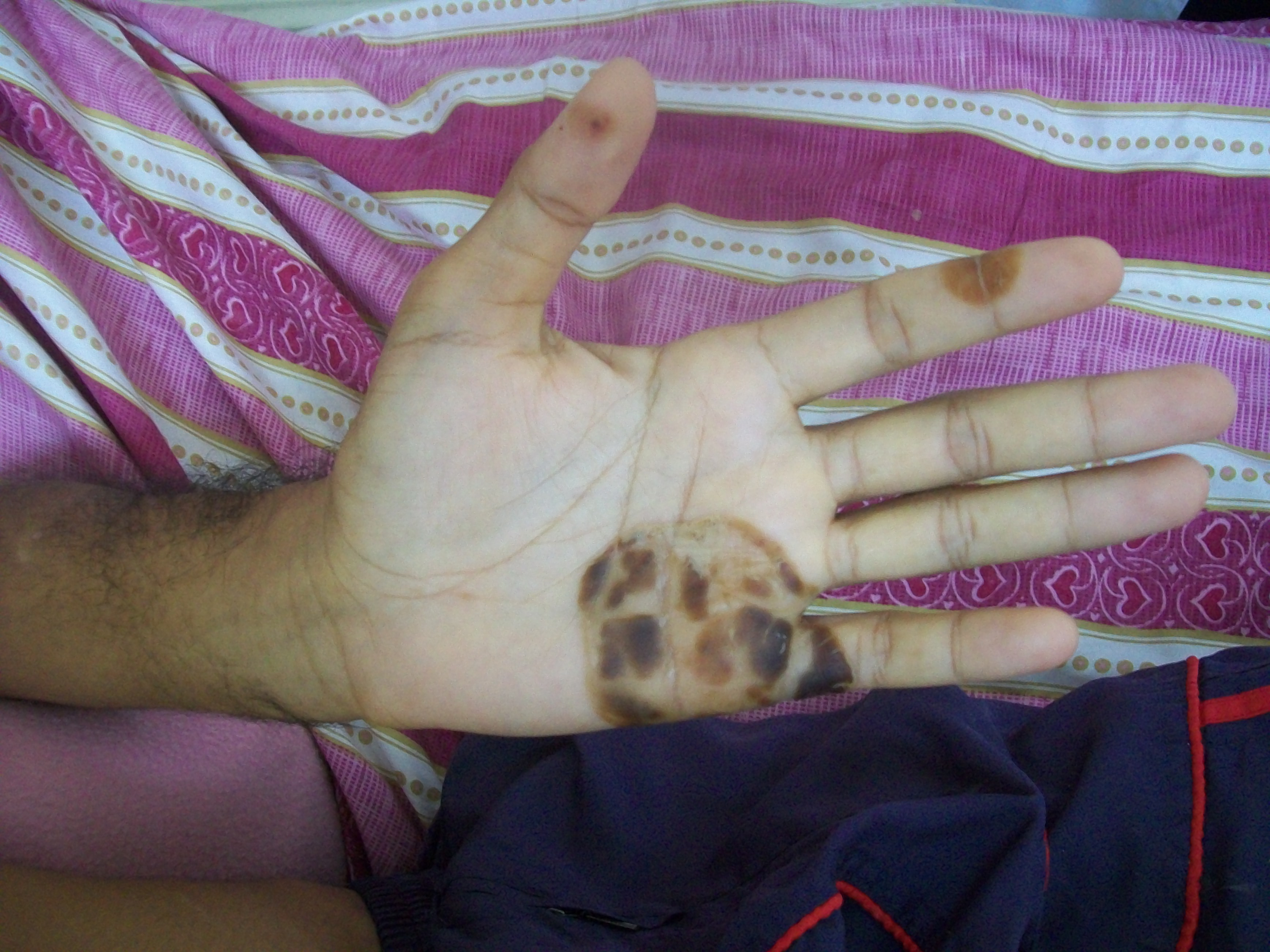 Osler's nodes on left hand from a 43 year old male with subacute bacterial endocarditis. Same patient as Osler Spots foot.jpg.